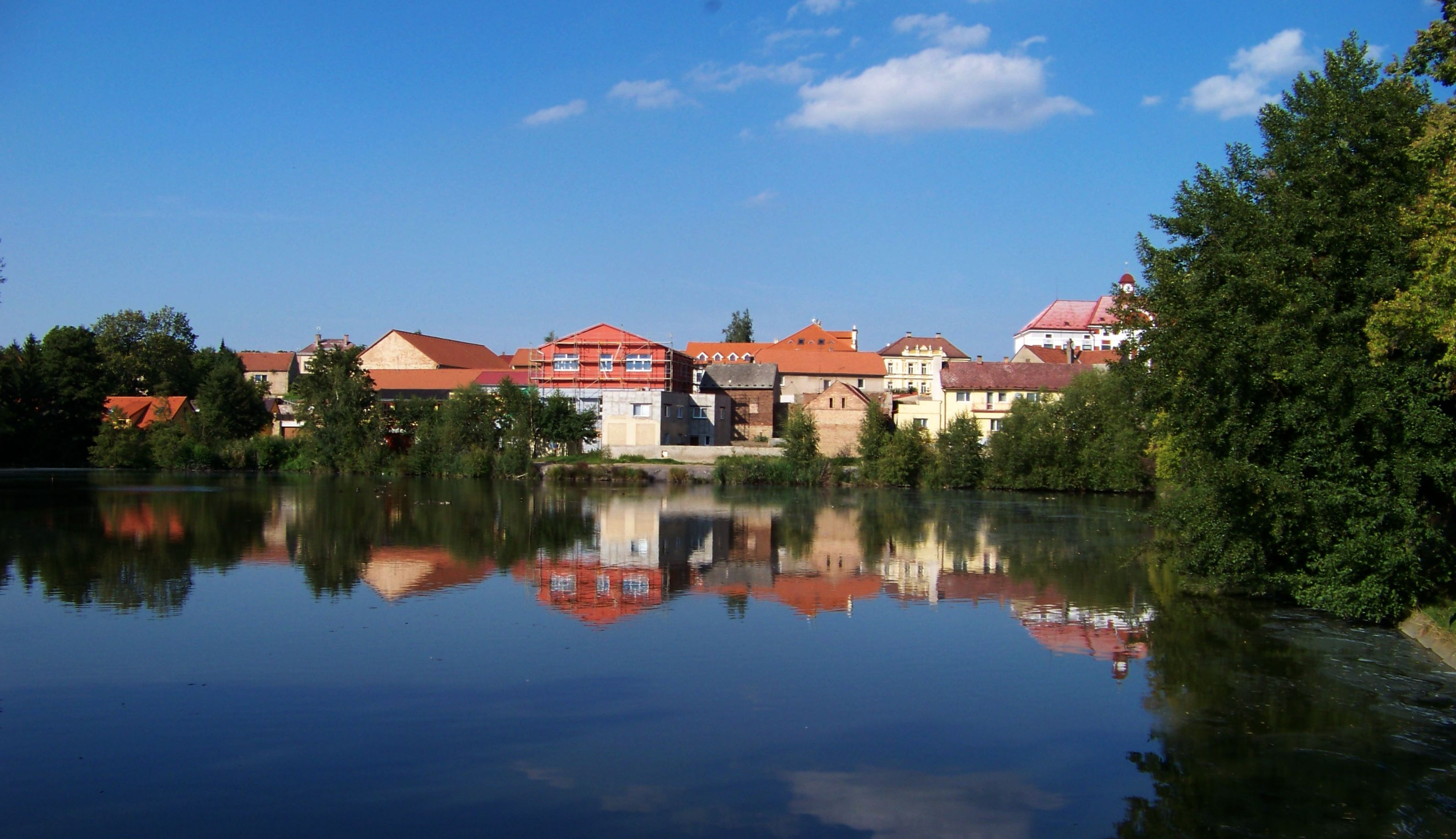 Jirny, Prague-East District, Central Bohemian Region, the Czech Republic. K Lesu street, Návesní Pond. - OpenStreetMap(Info)